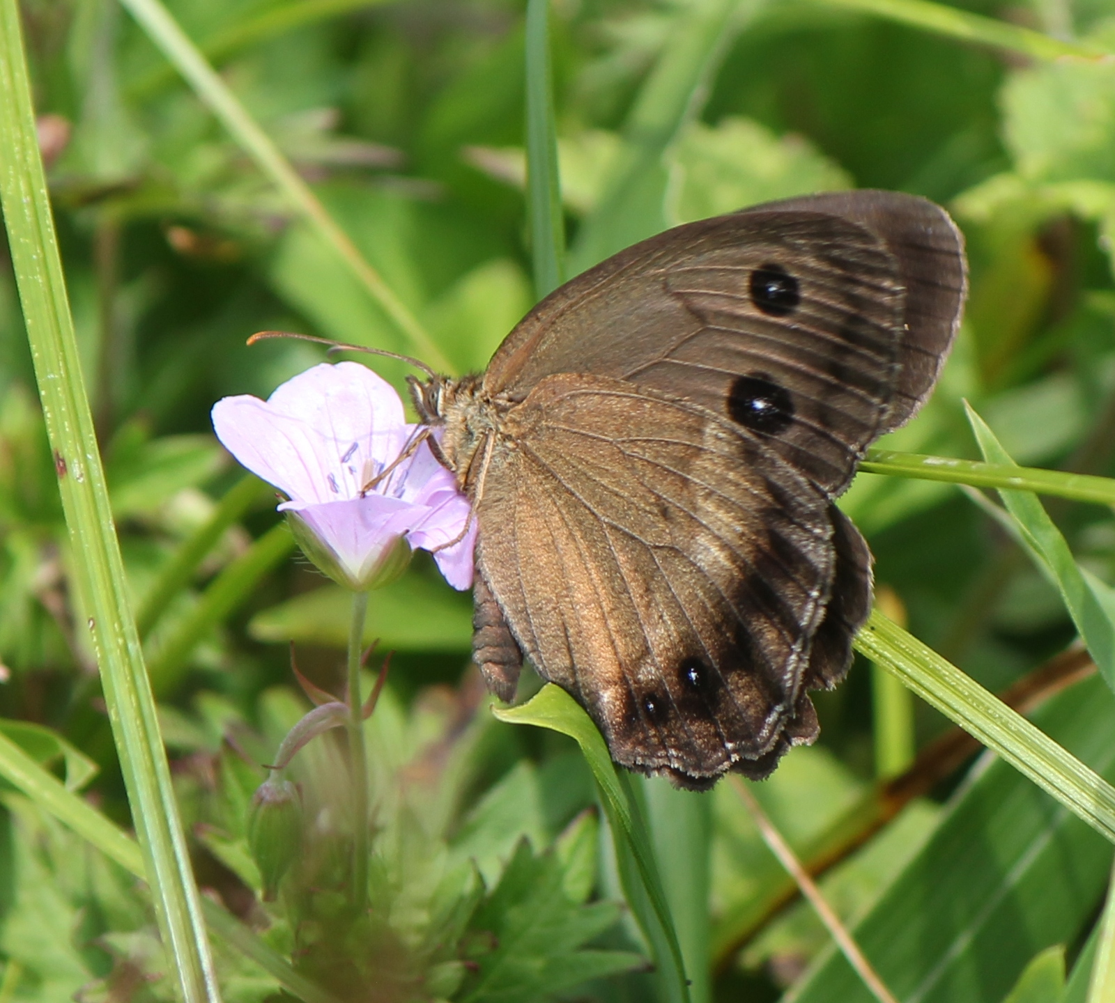 Minois dryas bipunctata, female feeding nectar of flower, in Mount Ibuki, Maibara, Shiga prefecture, Japan.